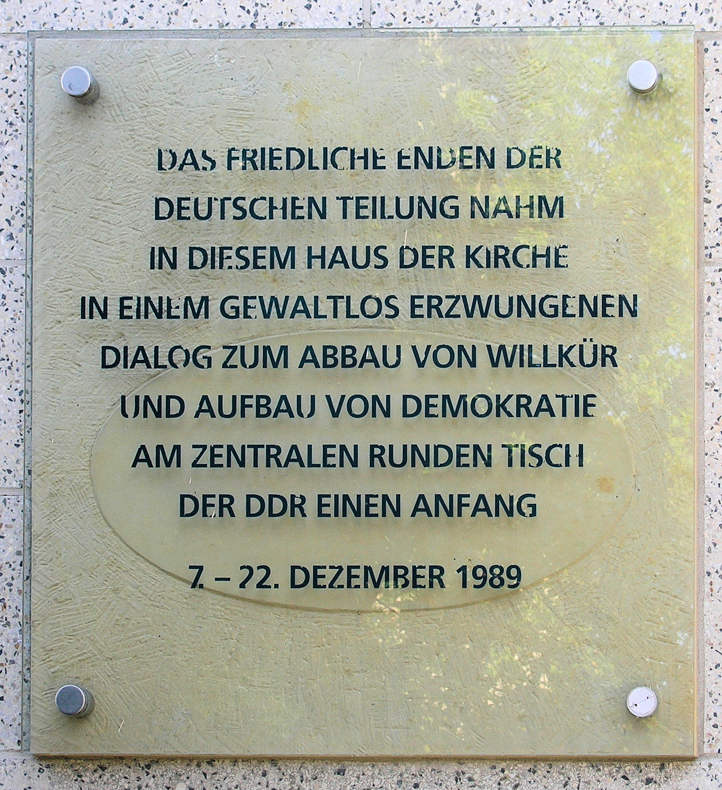 Memorial plaque, Runder Tisch, Ziegelstraße 30, Berlin-Mitte, Germany Koordinate:52°31′24″N 13°23′22″E / 52.52333°N 13.38944°E